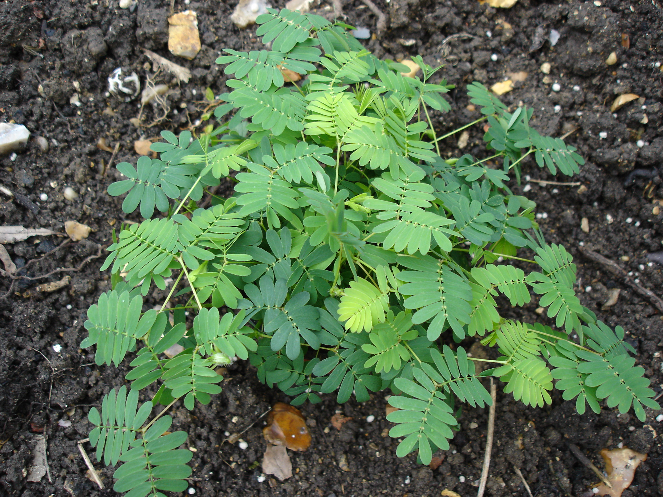 The Sensitive plant (Mimosa pudica L.) is a creeping annual or perennial herb often grown for its curiosity value: the compound leaves fold inward and droop when touched, re-opening within minutes.